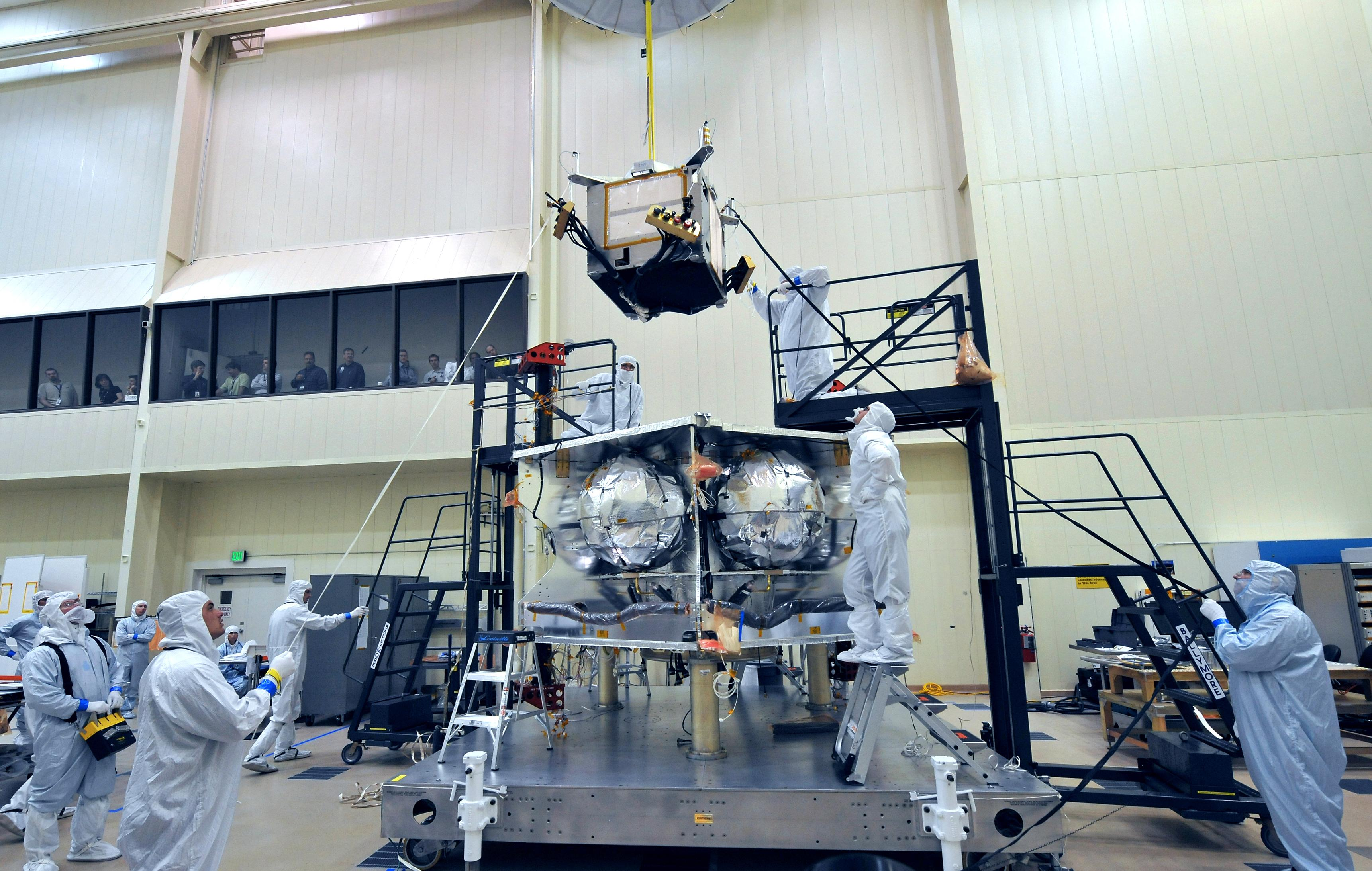 Installing Juno's Radiation Vault